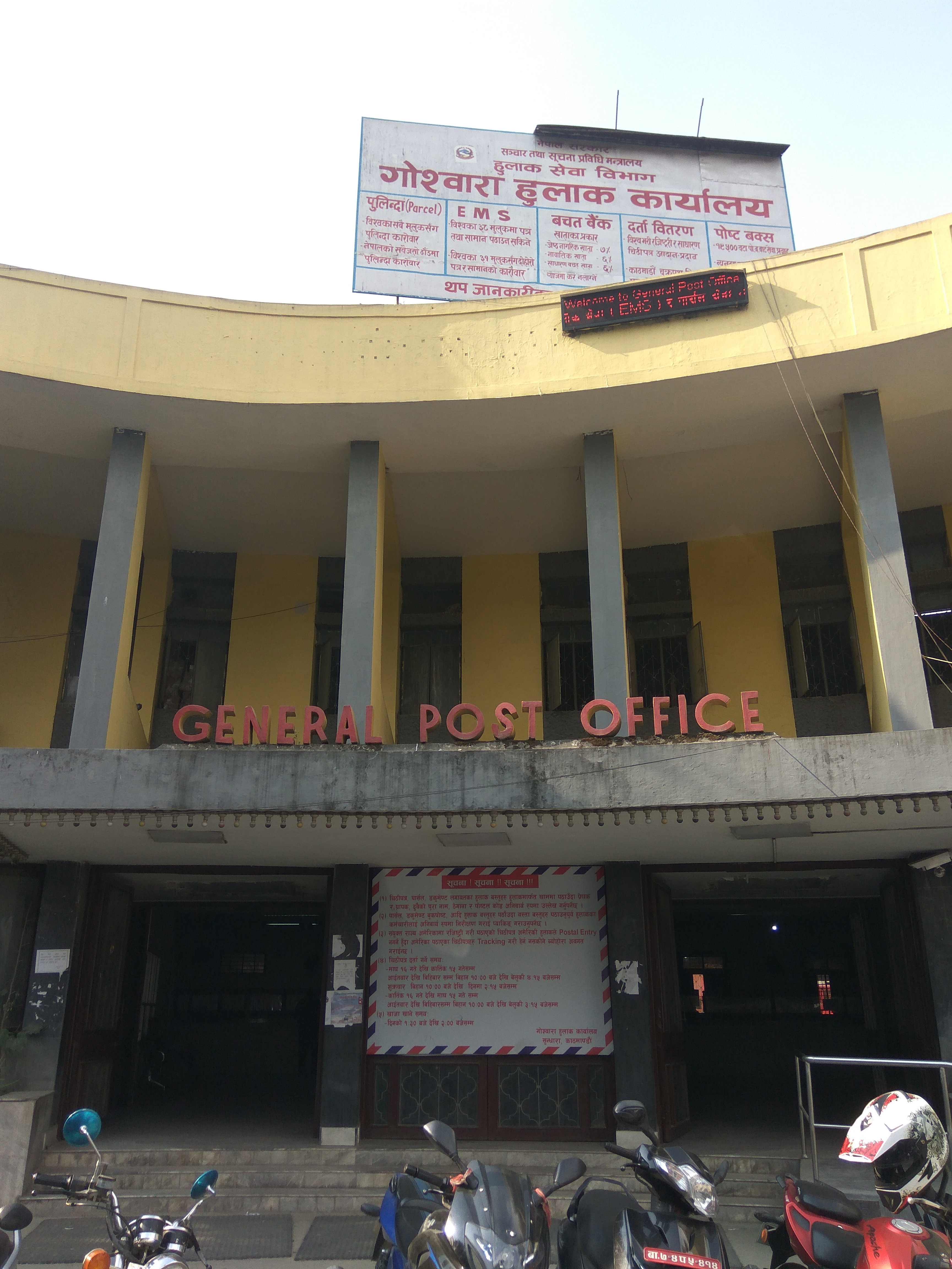 General Post Office at Sundhara, Kathmandu, Nepal. October 9th is World Post Day and has been celebrated all over the world to highlight the importance of the postal services.